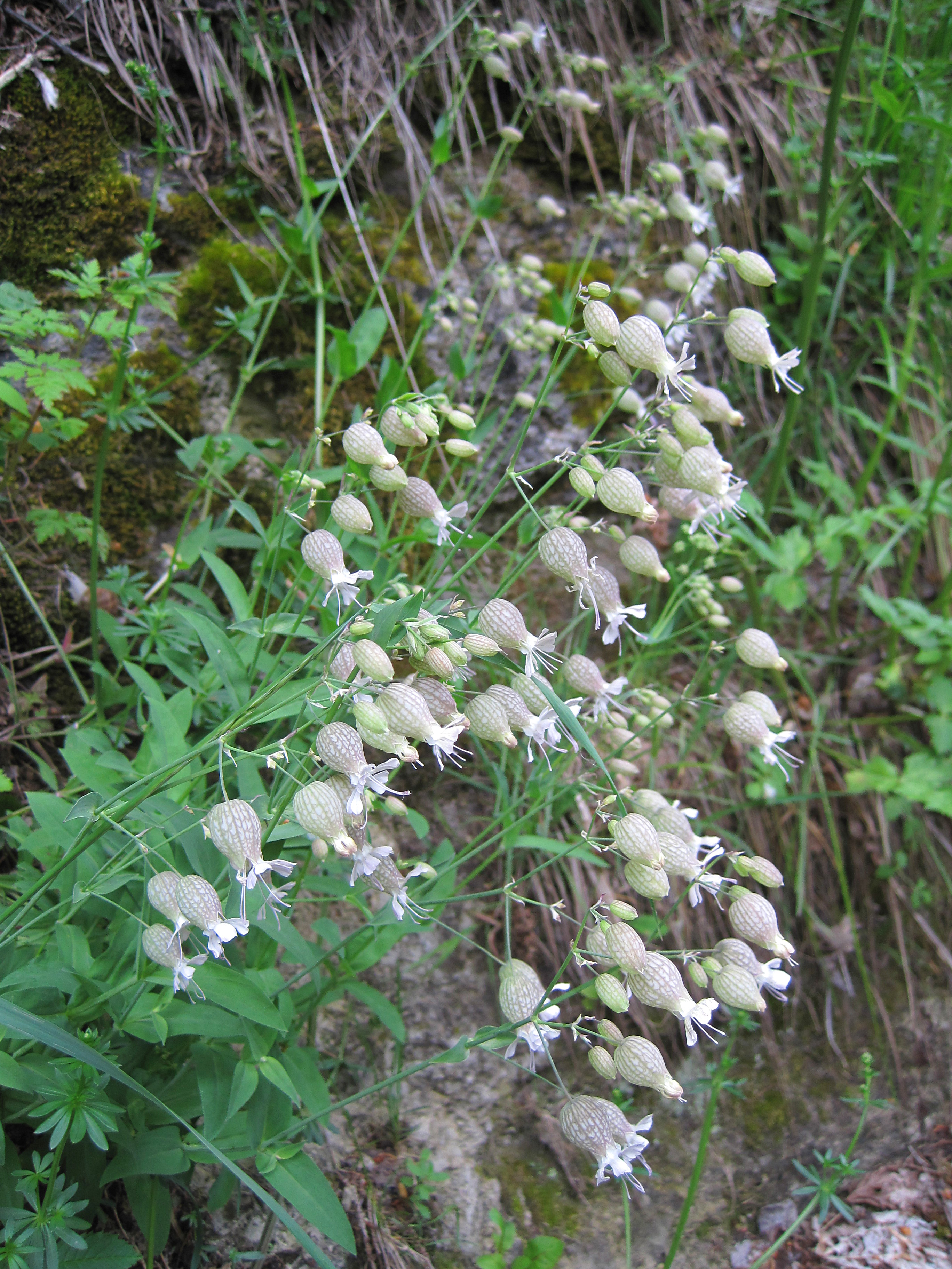 Bladder Campion.